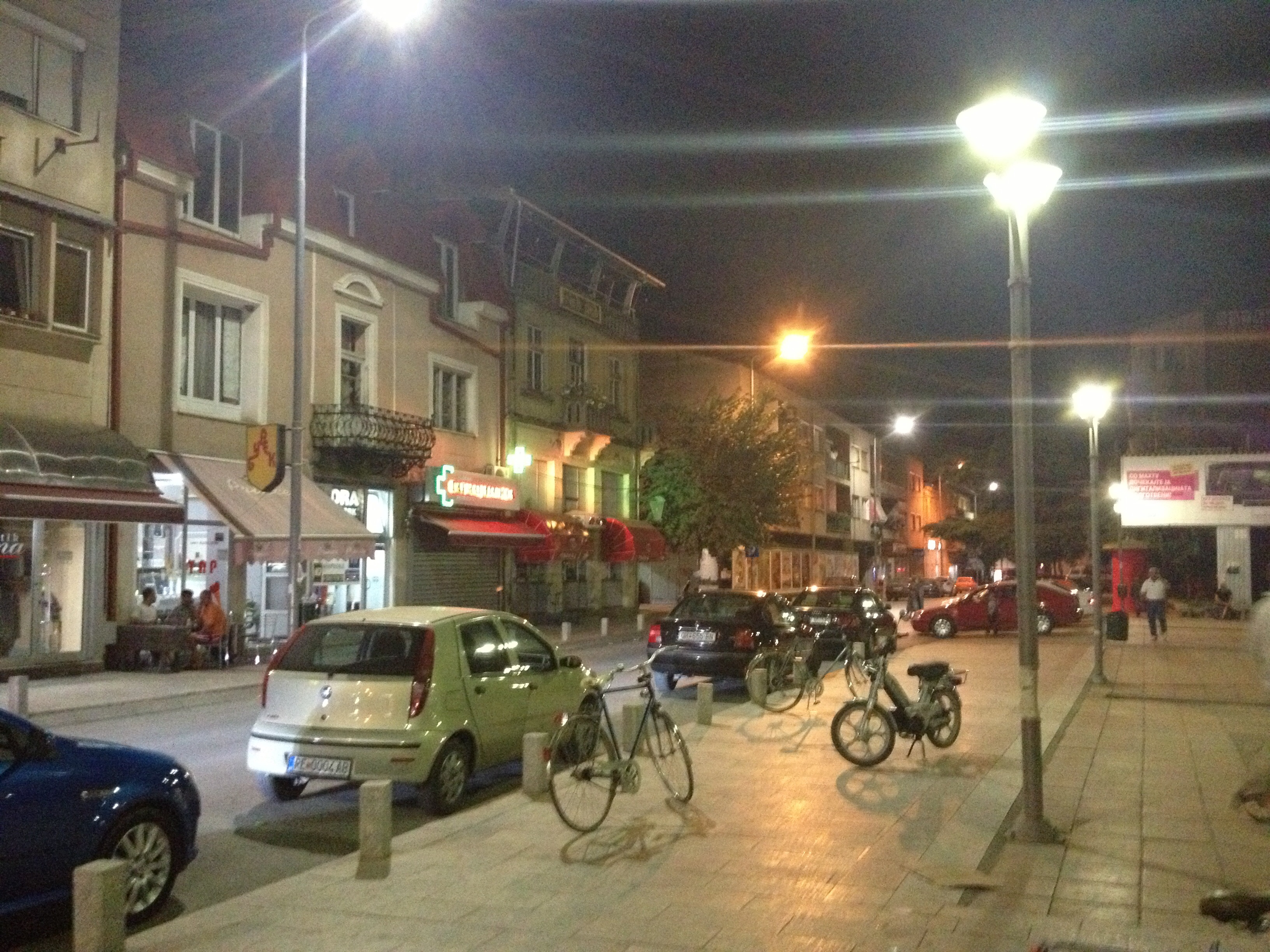 A street in Resen, Macedonia in the evening